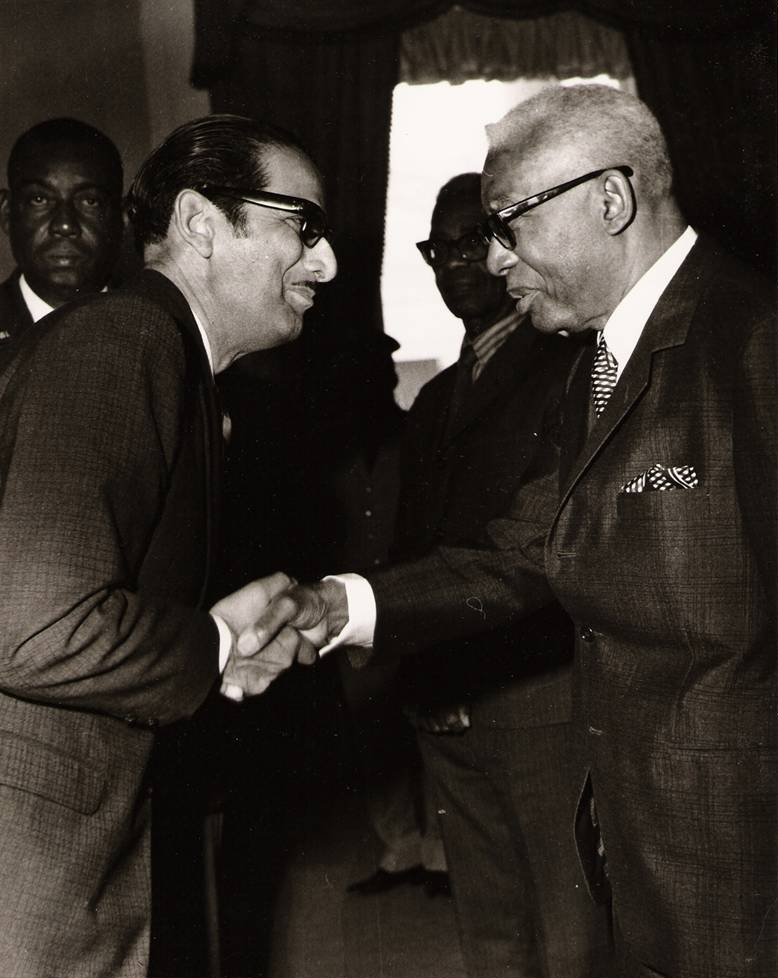 Haitian president F. Duvalier greets David Tercero Castro, a Guatemalan ambassador who ultimately served as the ambassador of Guatemala to Haiti.